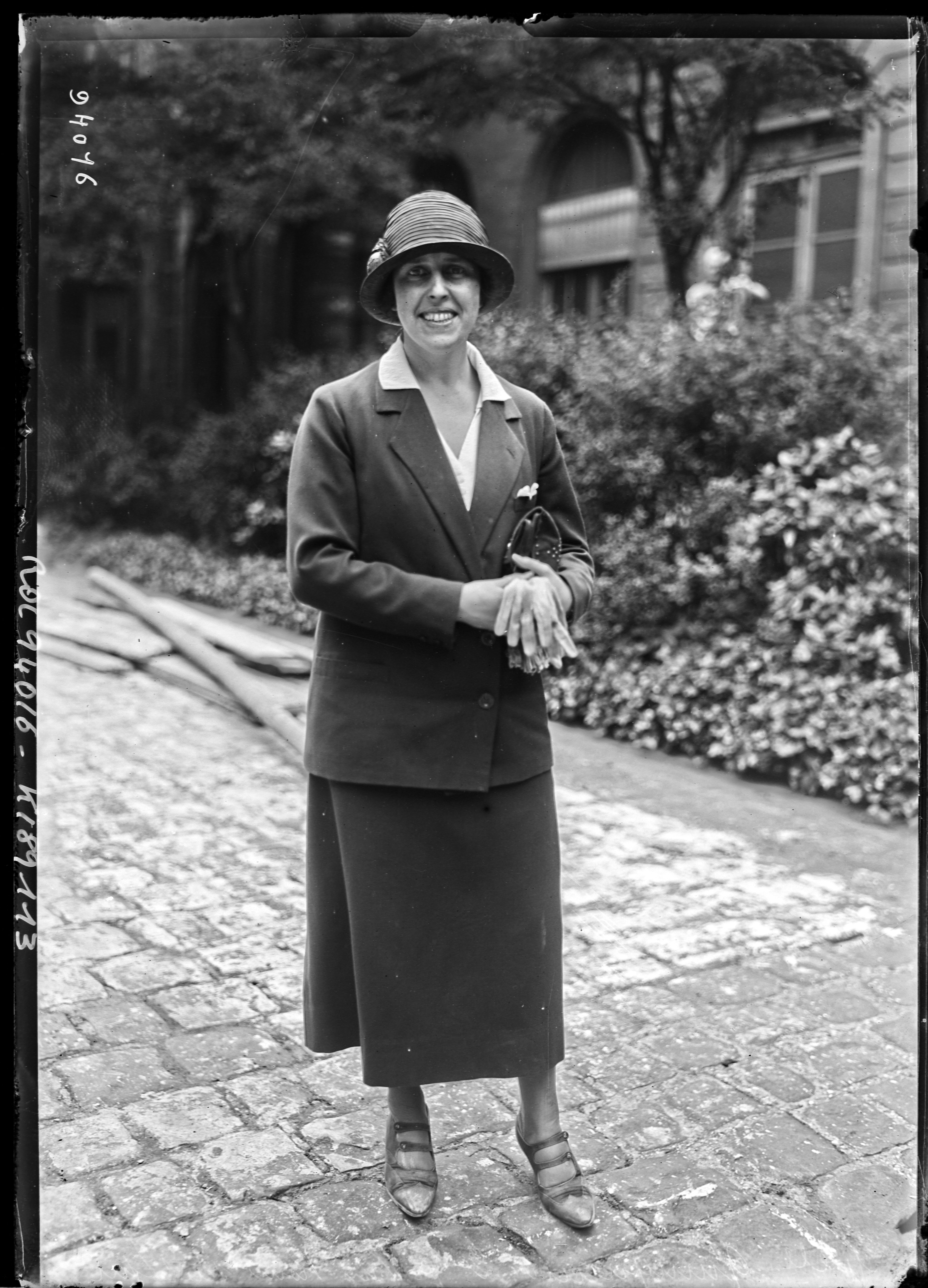 Press photo of Anna Quinquaud taken for the 2e Prix de Rome in Sculpture, 1924.